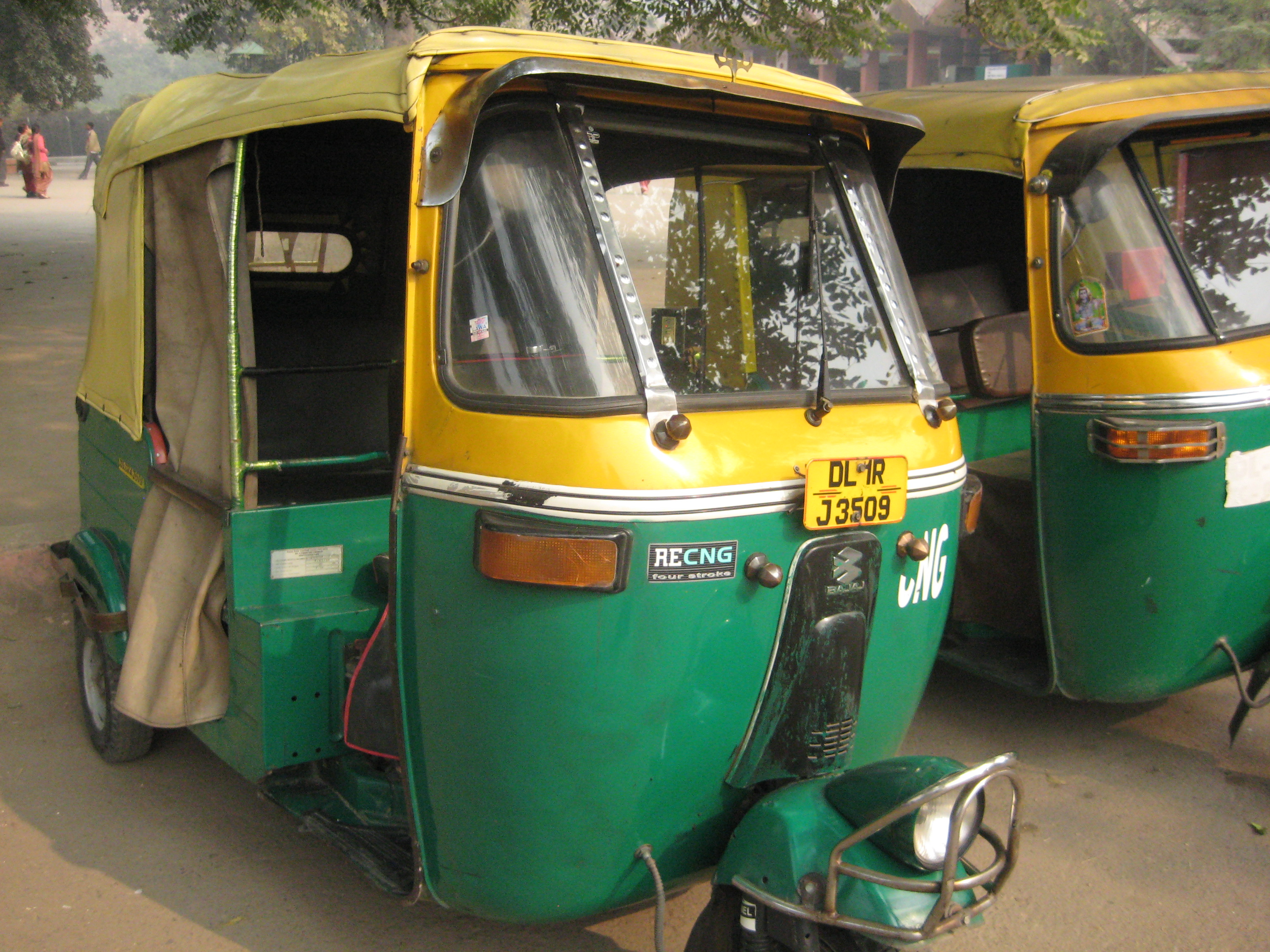 Auto-rickshaw, Delhi.